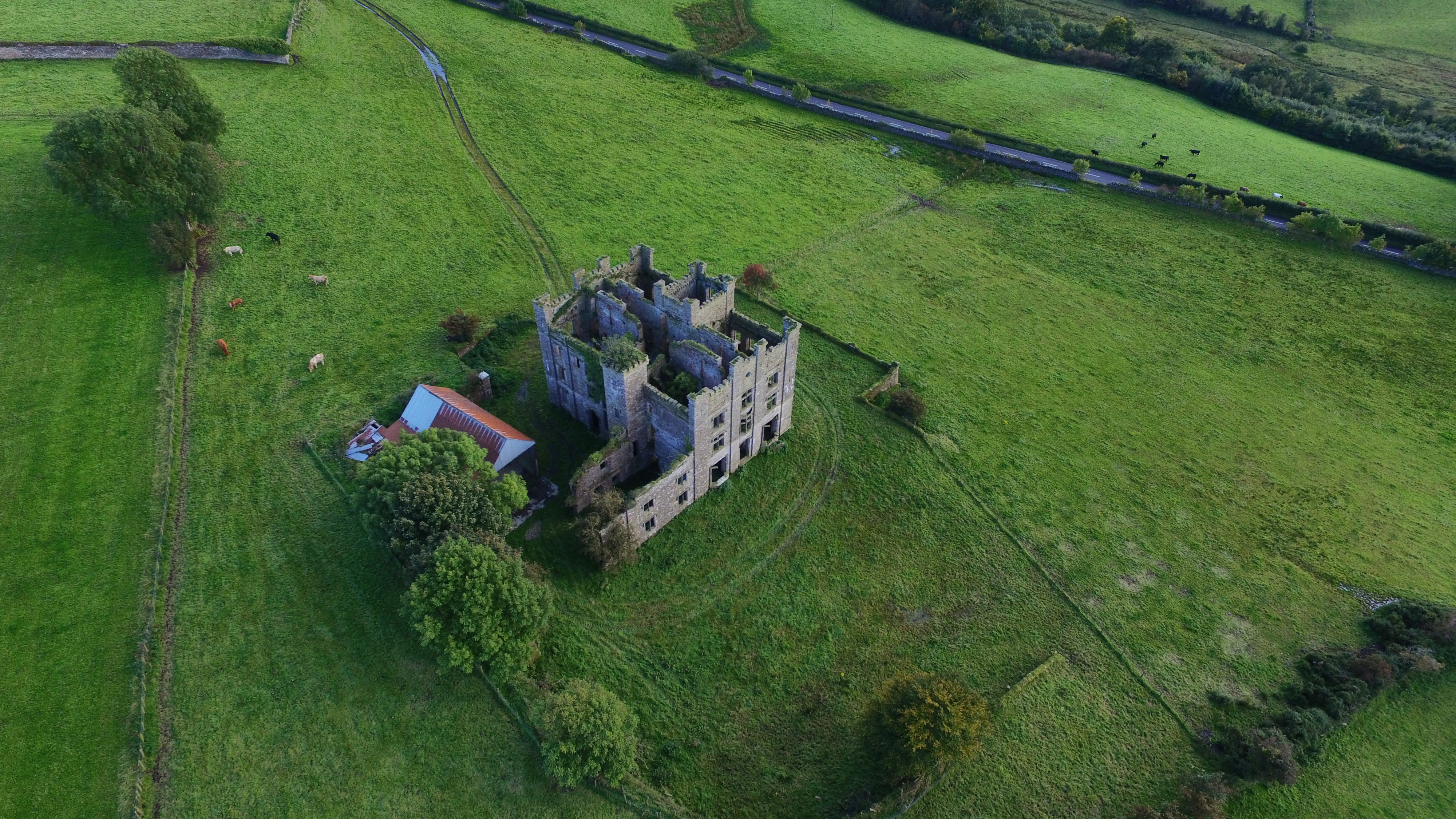 Ogilbys castle Donemana